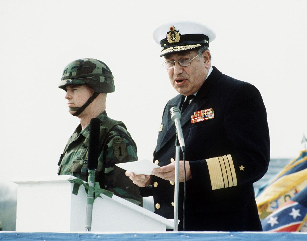 Adm. Wellershoff of the German navy addresses the crowd of civilians and military personnel assembled for a farewell ceremony in honor of the U.S. Army's 1st Infantry Division. The division is being deactivated in the aftermath of Operation Desert Storm. (Released to Public)